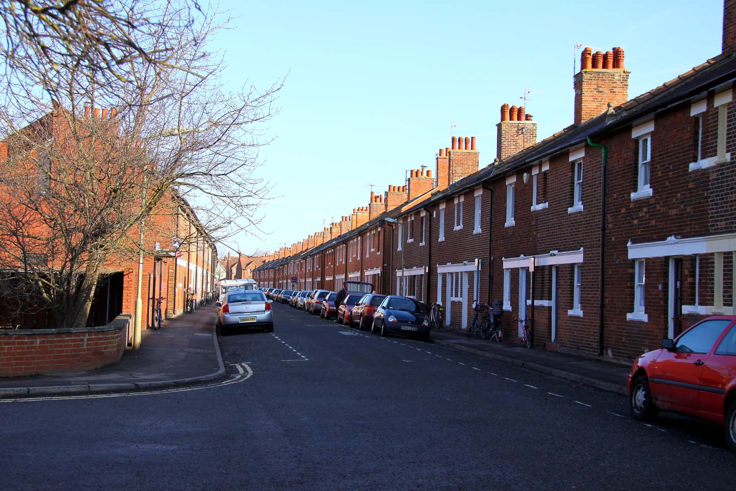 Hayfield Road, Walton Manor, Oxford, seen from the south